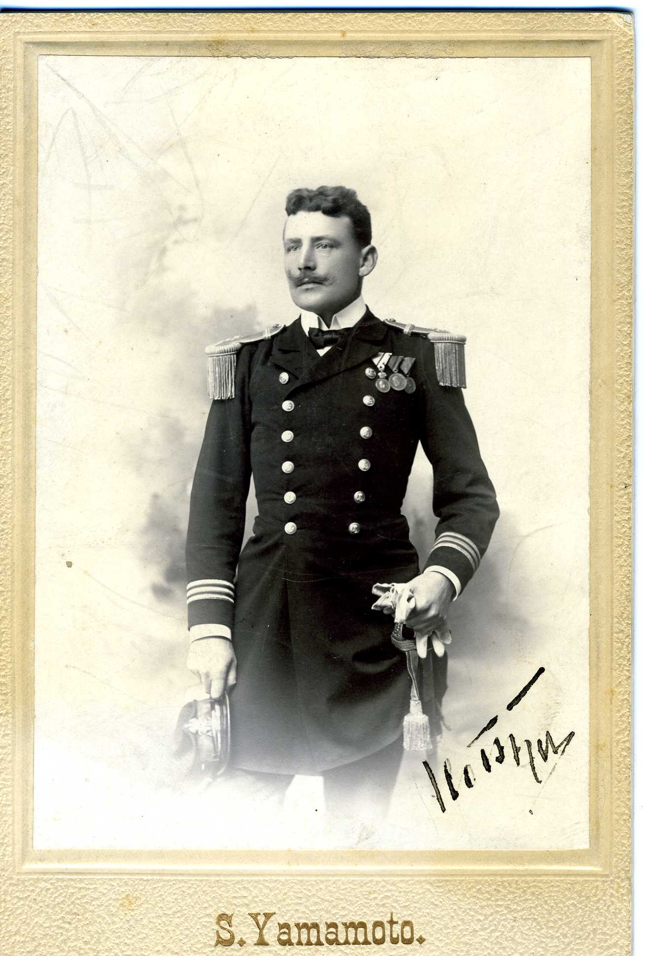 Austrian admiral Alois Schusterschitz